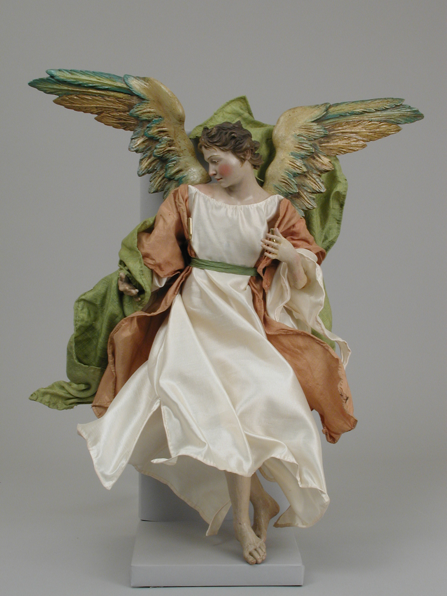 Italian, Naples; Crèche figure; Crèche